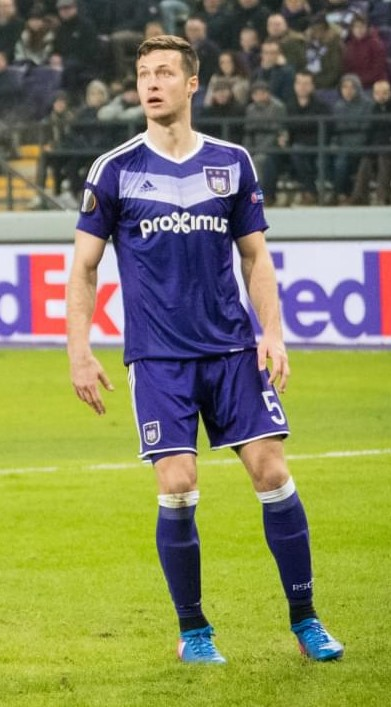 Uroš Spajić